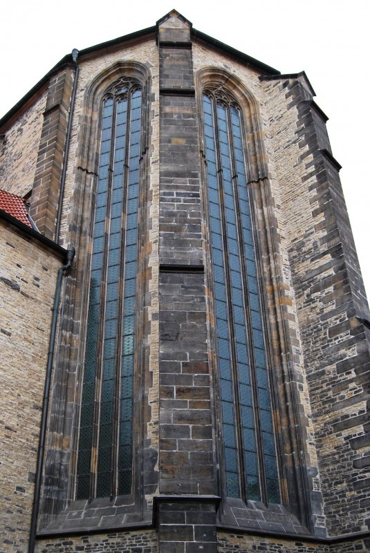 Kostel Matky Boží před Týnem